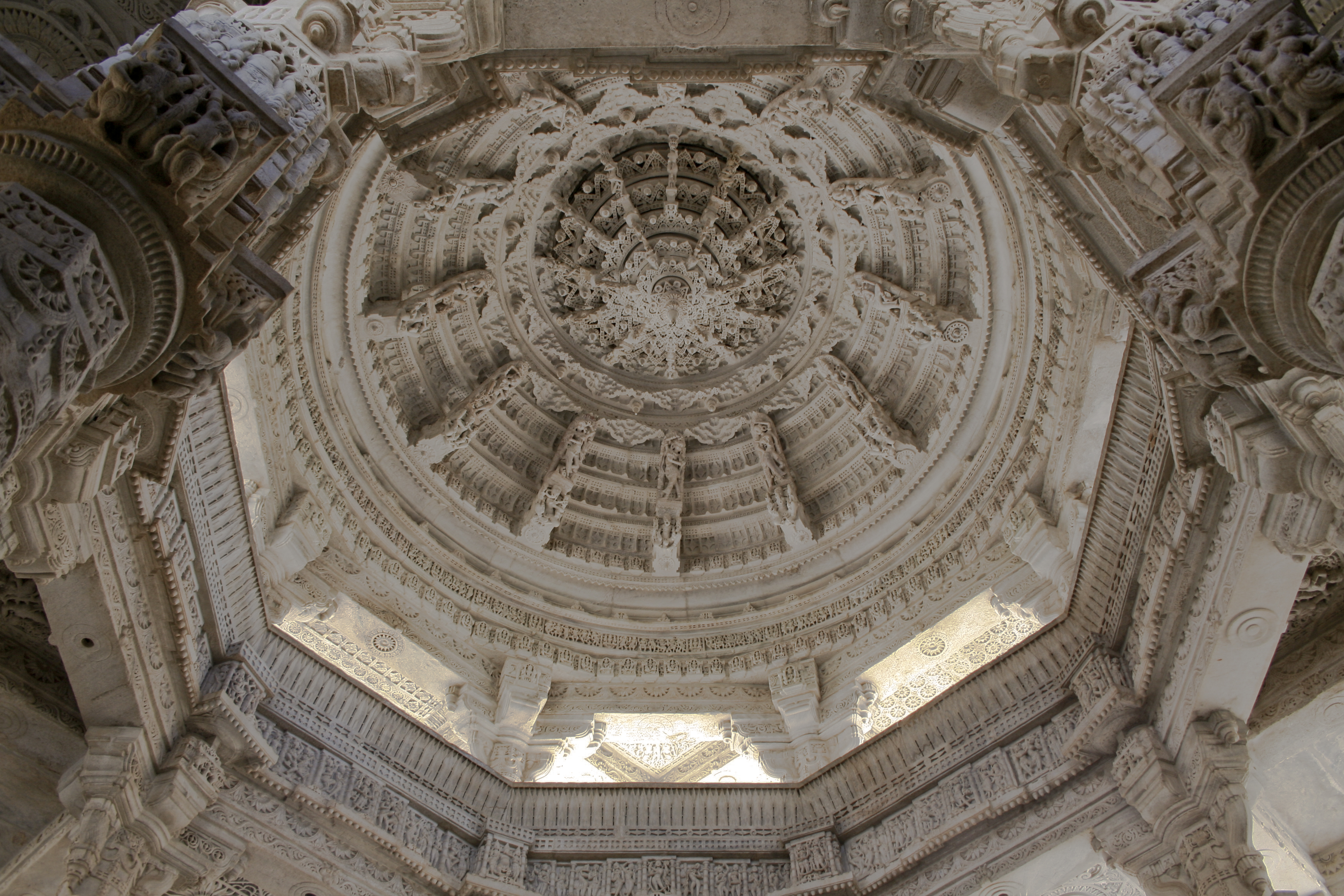 Ceiling inside the large Jain temple at Rankpur, Rajastan, India.